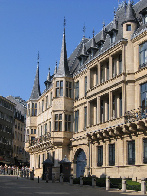 Photo of the Grand Ducal (former governor's) palace